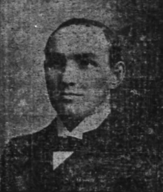 Dr. A. C. Jones, former Virginia football coach and running back